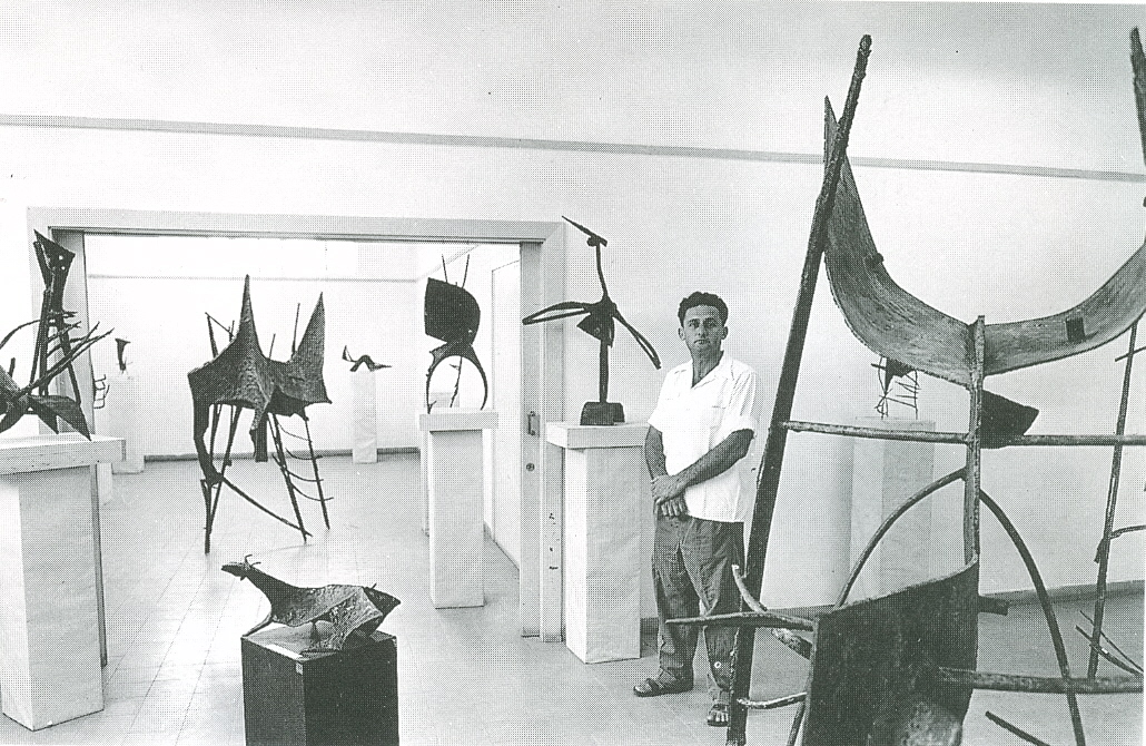 Yehiel Shemi at Beit Dizinghof (1957)